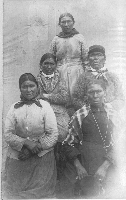 Photograph. Members of the Atikamekw Nation from the Manawan community. Original description: "Royal Family", Manowan Indian group, QC, about 1900, Anonymous, Silver salts on paper mounted on card - Albumen process - 20 x 12 cm